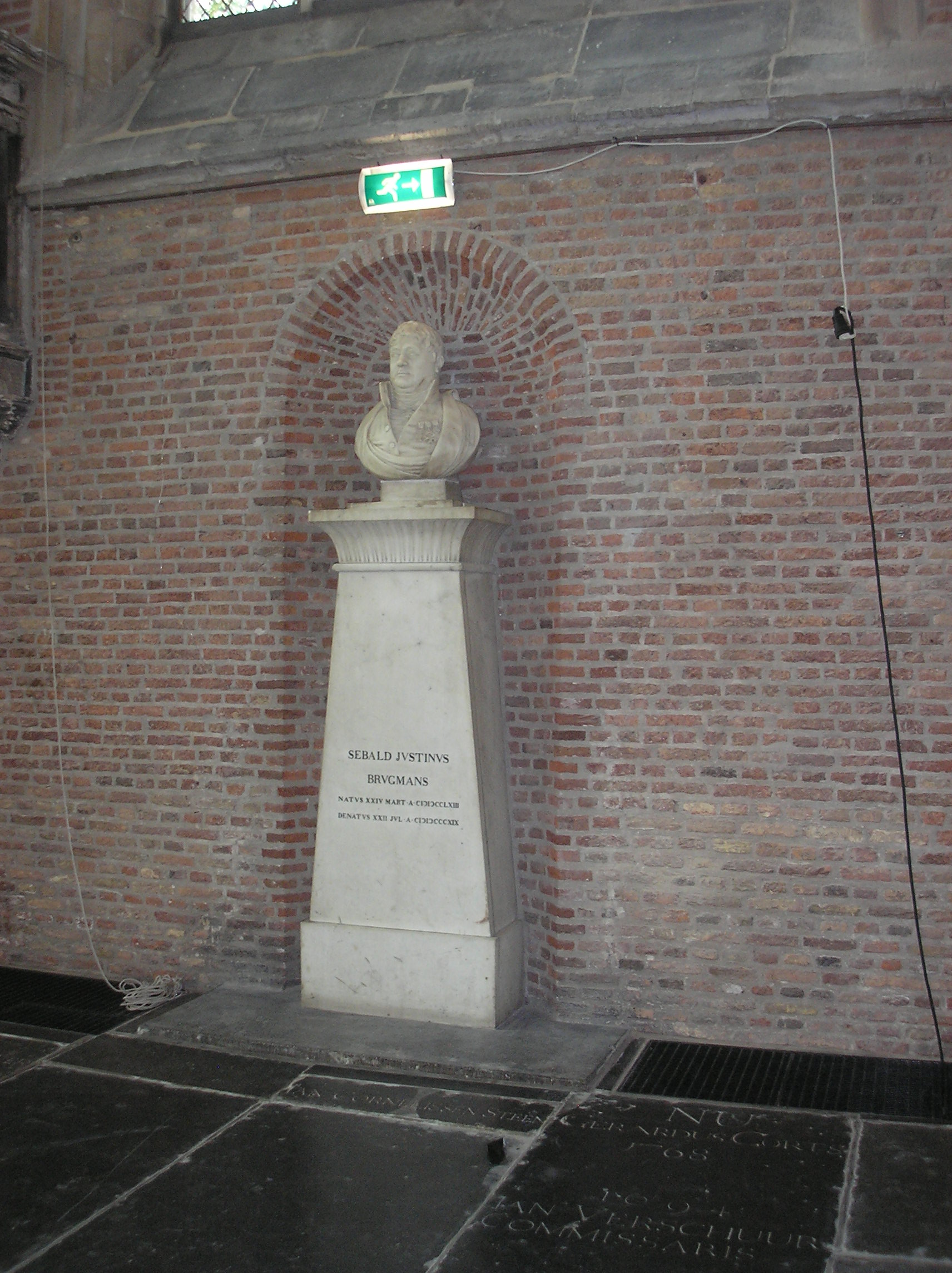 Monument Pieterskerk Leyden. Sebald Justinus Brugmans was a Dutch botanist, physician and professor of natural Sciences.